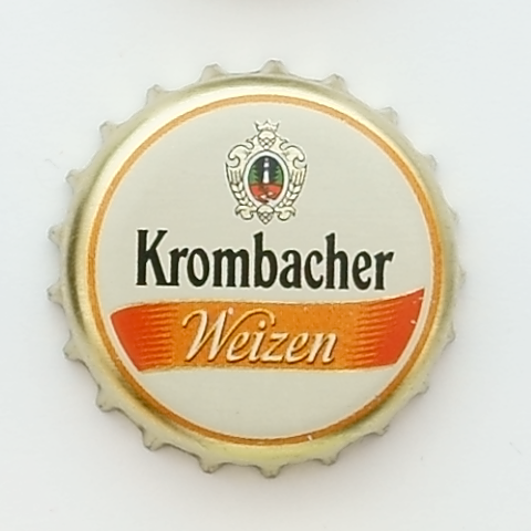 Bottle caps from different countries